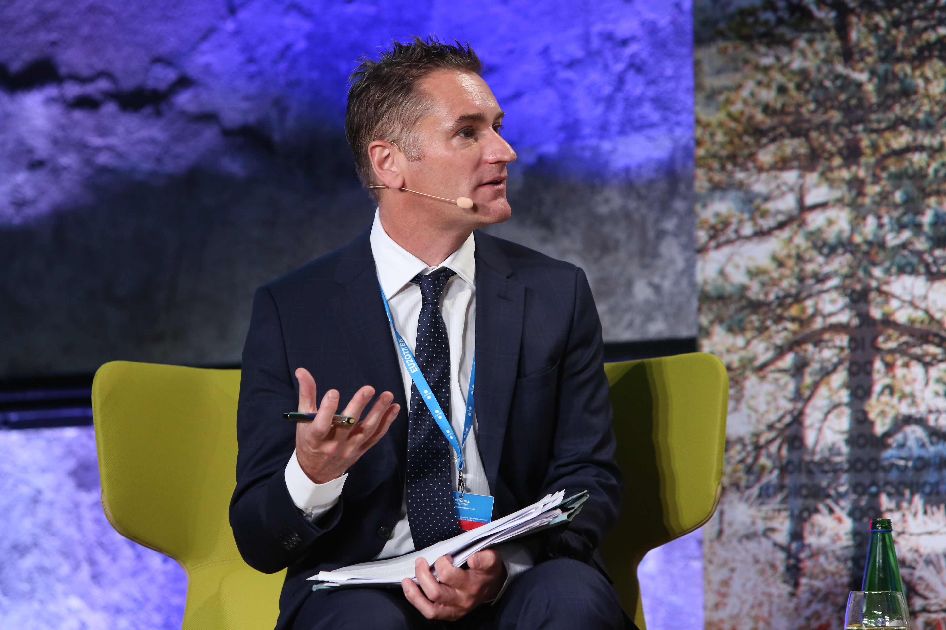 Gareth Mitchell, moderator